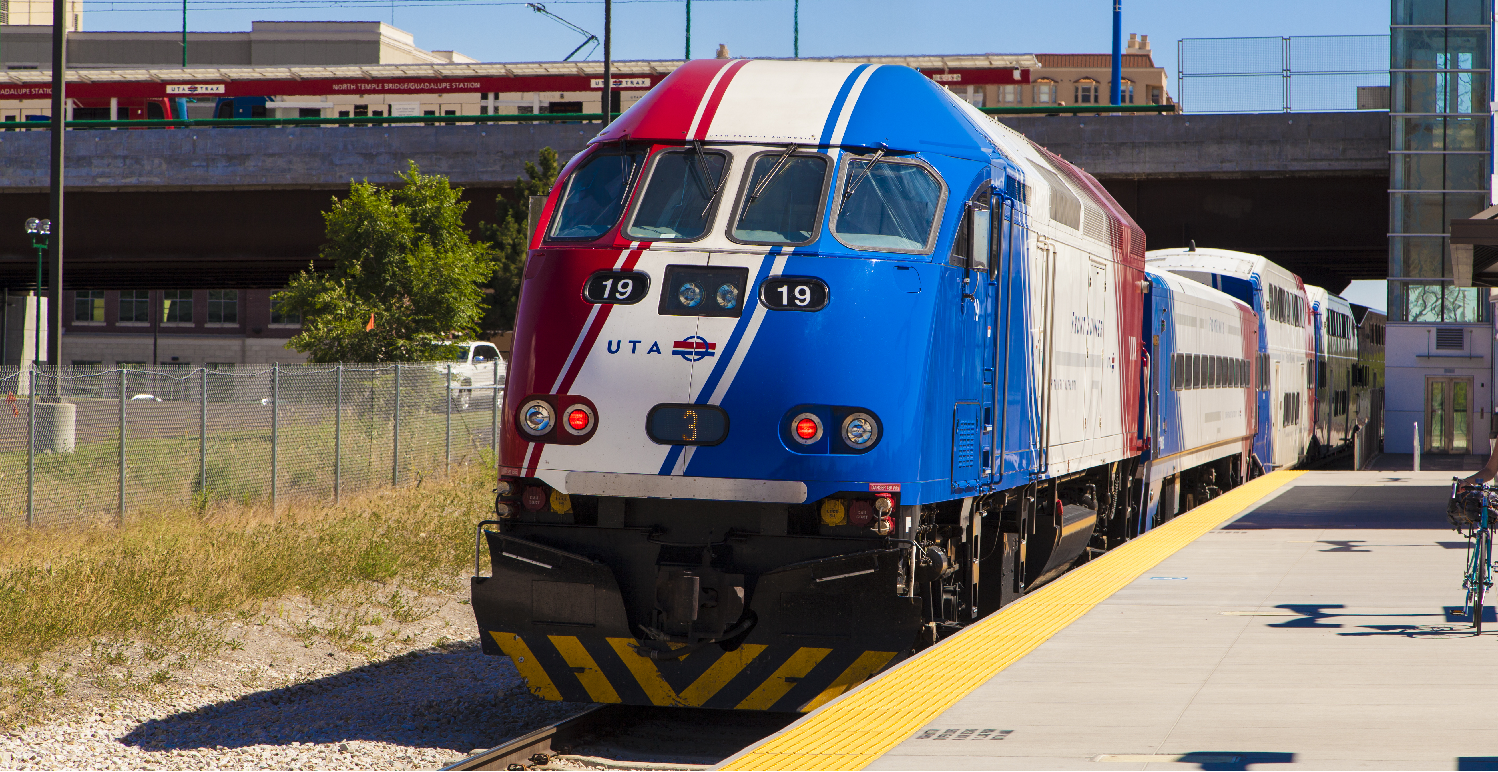 A FrontRunner train at the North Temple station, under the North Temple Bridge/Guadalupe TRAX station, in Salt Lake City, Utah, United States.